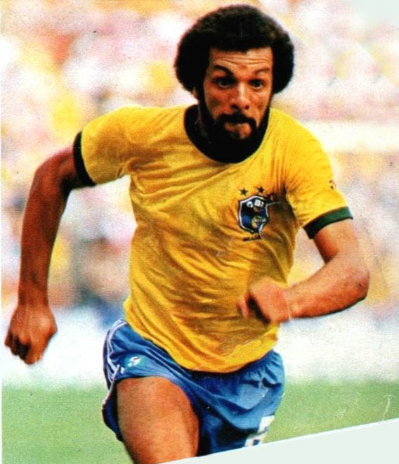 Júnior, former player of Flamengo, Torino, Pescara and Brazil national football team